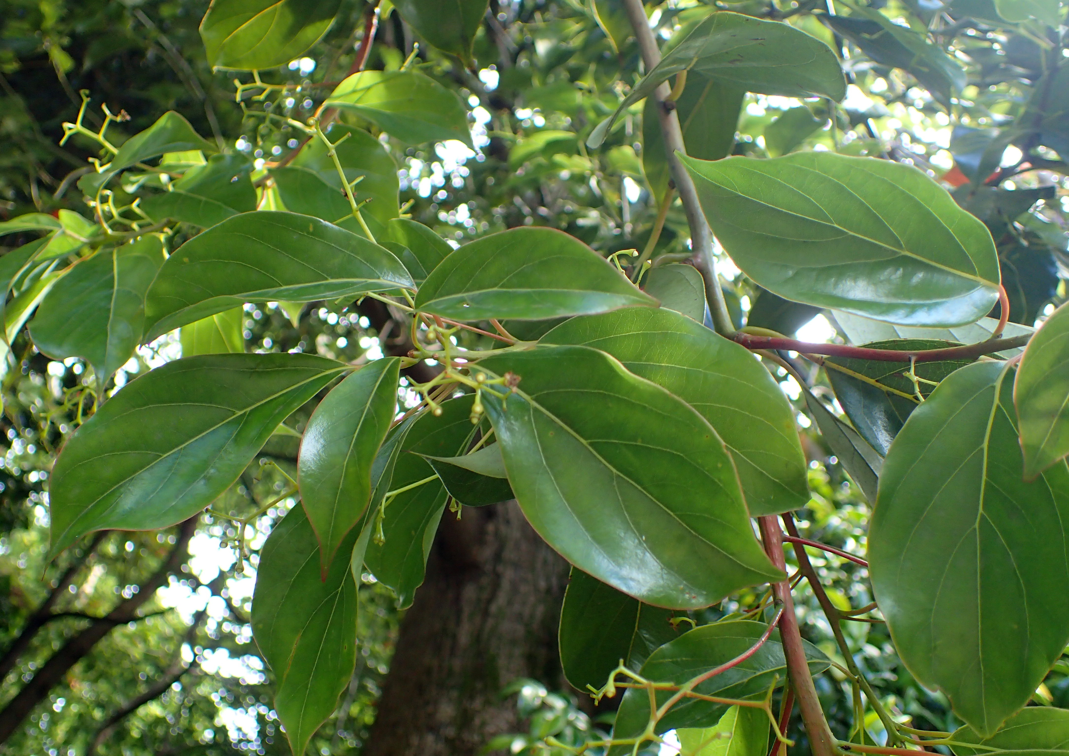 Cinnamomum glanduliferum in botanical garden in Batumi